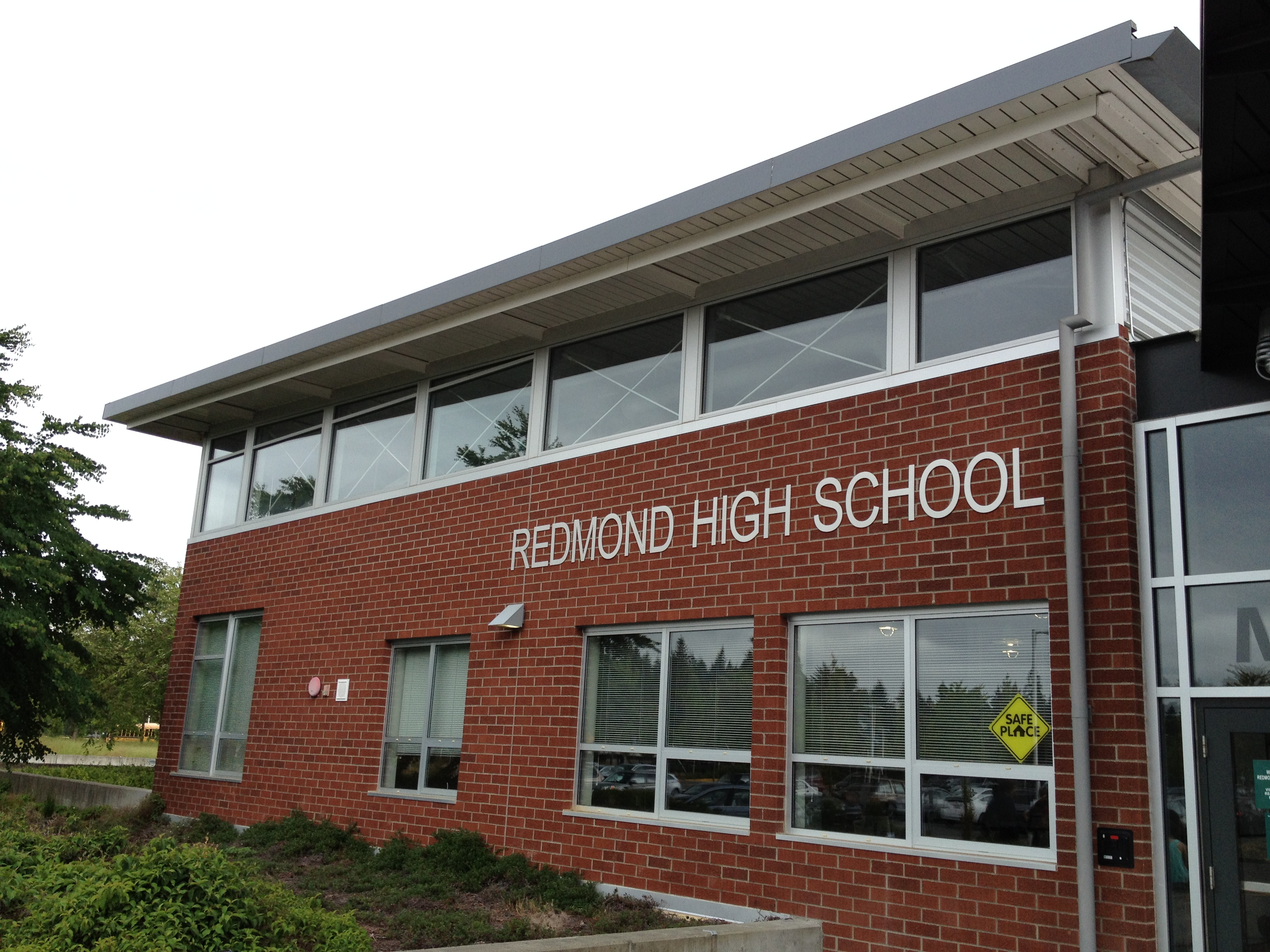 Redmond High School WA, 2015